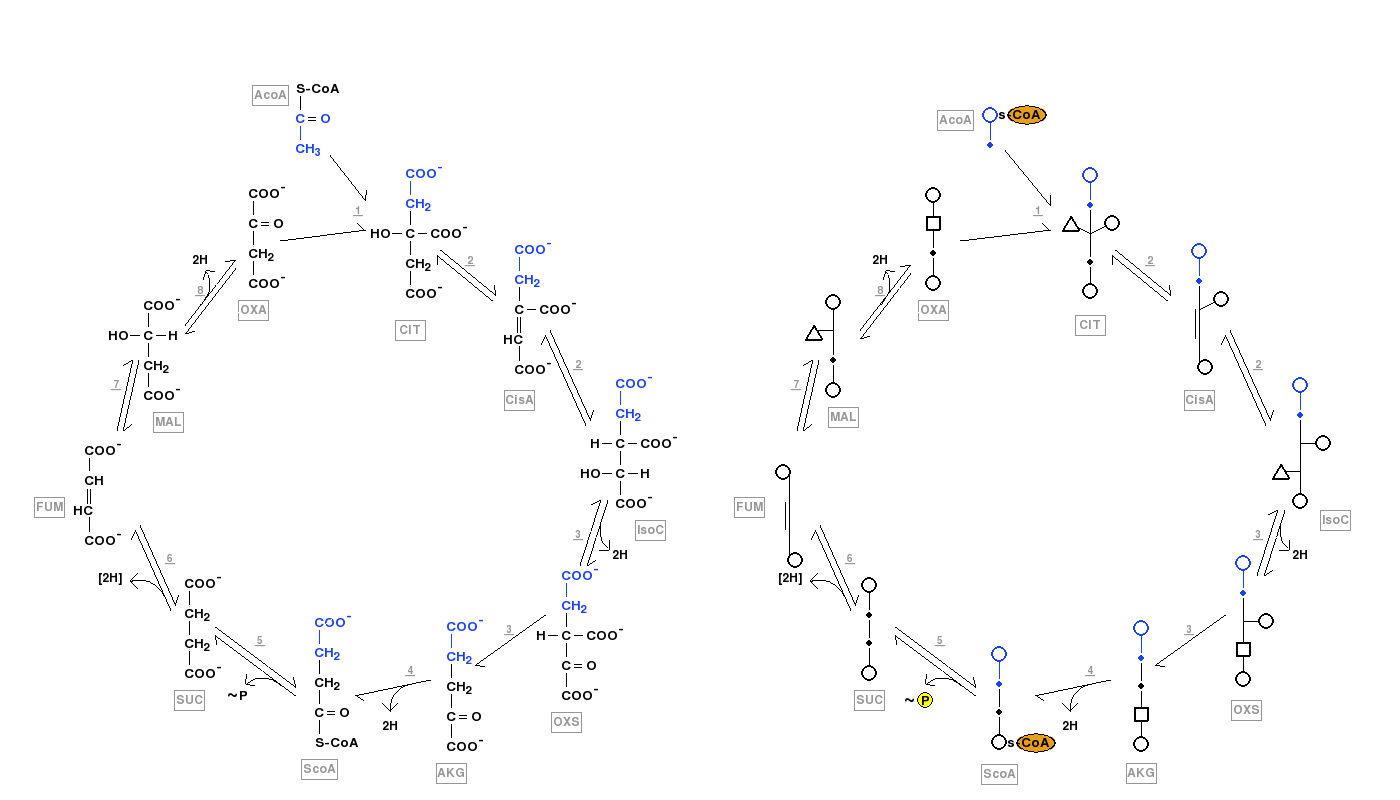 Citric acid cycle components using Fischer representation comparing to polygonal model. The last form is easier and faster to read and write, and shows with clarity each change of the intermediates in the reactions.